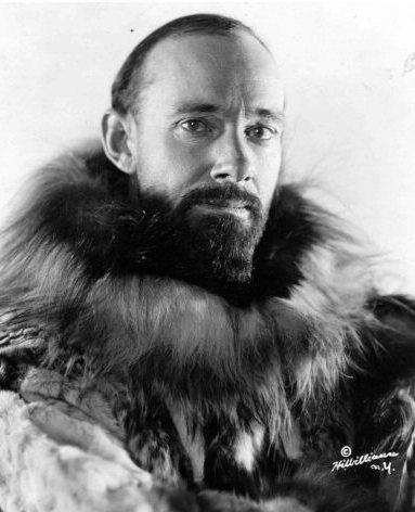 Sir George Hubert Wilkins (1888–1958), Australian polar explorer, ornithologist, pilot, soldier, geographer and photographer